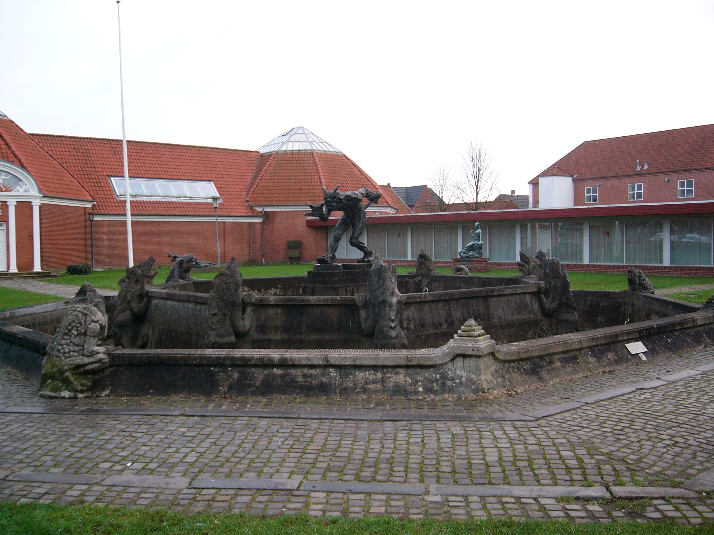 The sculpture En Trold, der vejrer Kristenkød ("A troll scenting Christian flesh") by Niels Hansen Jacobsen. The sculpture stands in the city of Vejen, Denmark, and is also pictured on the city coat of arms. Picture taken by Søren Fuglede Jørgensen, December 24th, 2006.